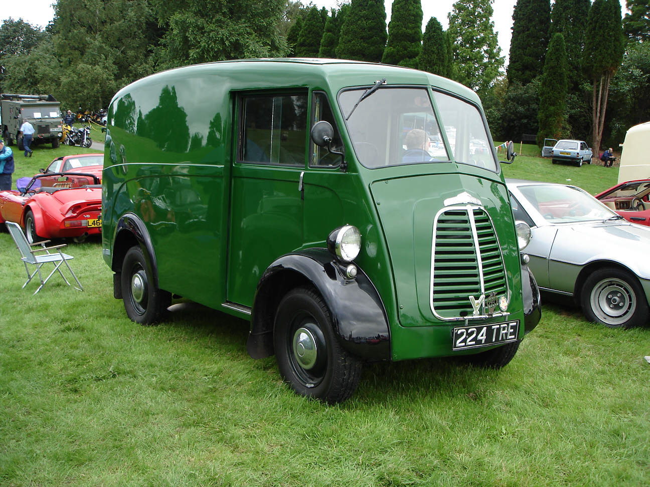 Morris Commercial JB van of 1957. Photograph by myself taken on 3 September 2006, Cheshire, UK